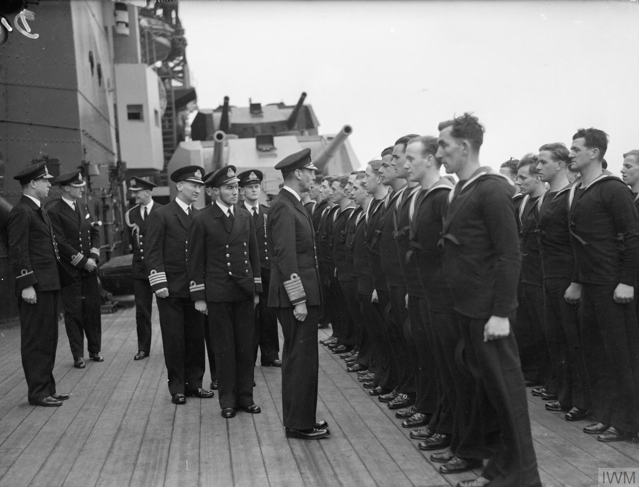 The King Pays 4-day Visit To the Home Fleet. 18 To 21 March 1943, at Scapa Flow, the King, Wearing the Uniform of An Admiral of the Fleet, Paid a 4-day Visit To the Home Fleet. The King inspecting some of the ship's company on the battleship HMS HOWE.